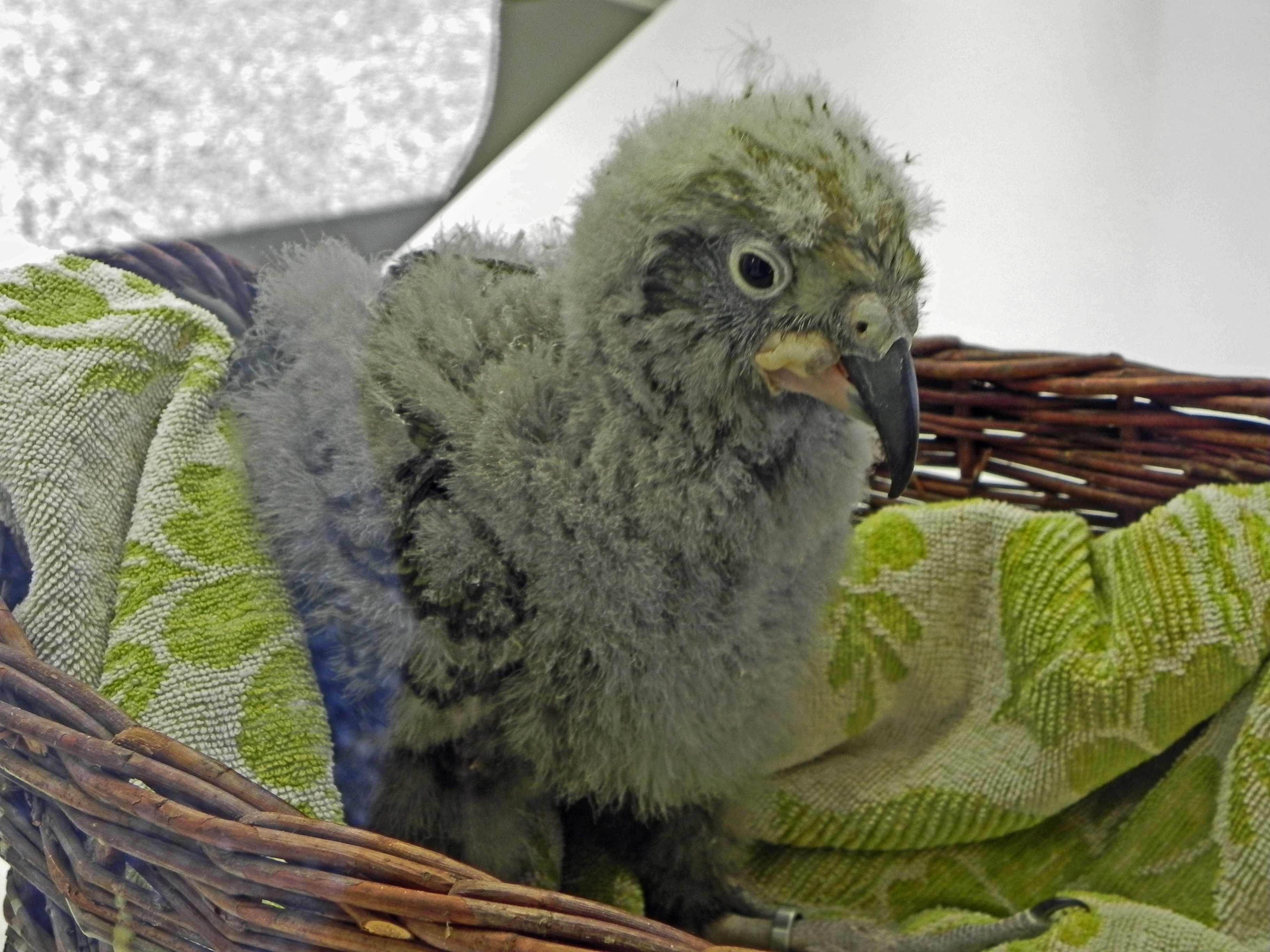 Kea (Nestor notabilis) squeaker (Walsrode Bird Park, Germany)